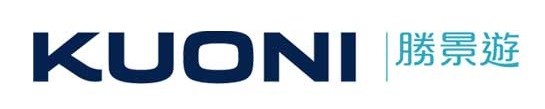 Logo of Kuoni Travel of Hong Kong. It was incorporated as Travel Circle International Limited and formerly known as P&O Travel Limited, Kuoni Travel (China) Limited and Travel Circle International Services Limited. The text logo is a registered trademark in Hong Kong. The English text belongs to Kuoni Travel IP Limited, with HK trademark number 301137609 (accepted in 2008). The Chinese text belongs to Travel Circle International Limited. The latter have trademark numbers 304152942 and 304152951